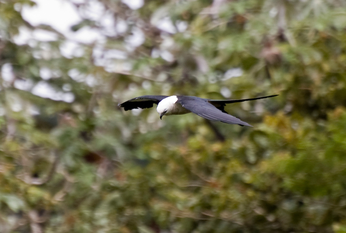 Swallow-tailed Kite Elanoides forficatus, Arenal Volcano, Costa Rica.